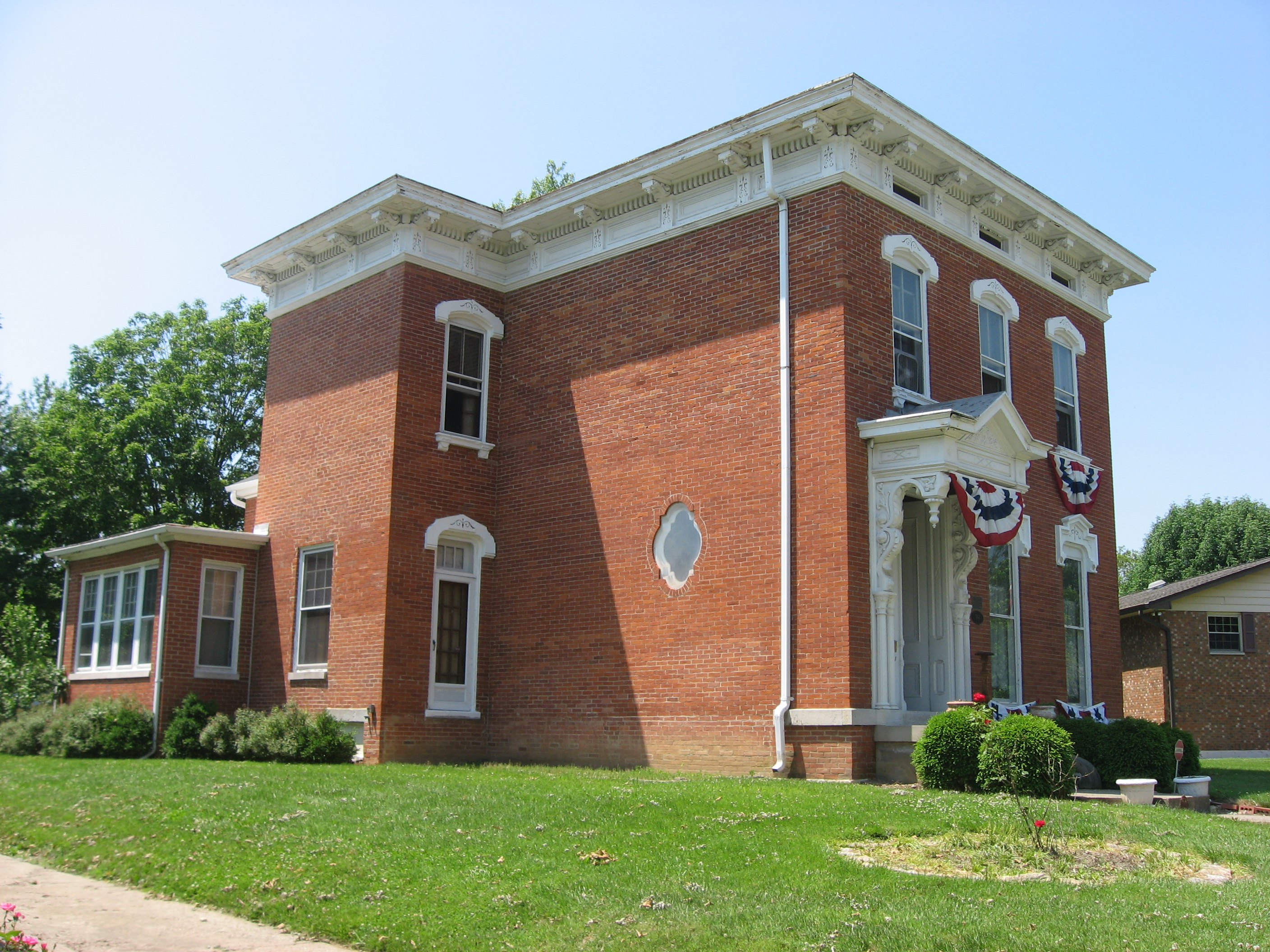 Front of the Samuel N. Patterson House, located at 364 N. King Street in Xenia, Ohio, United States. Built in 1875, it is listed on the National Register of Historic Places.